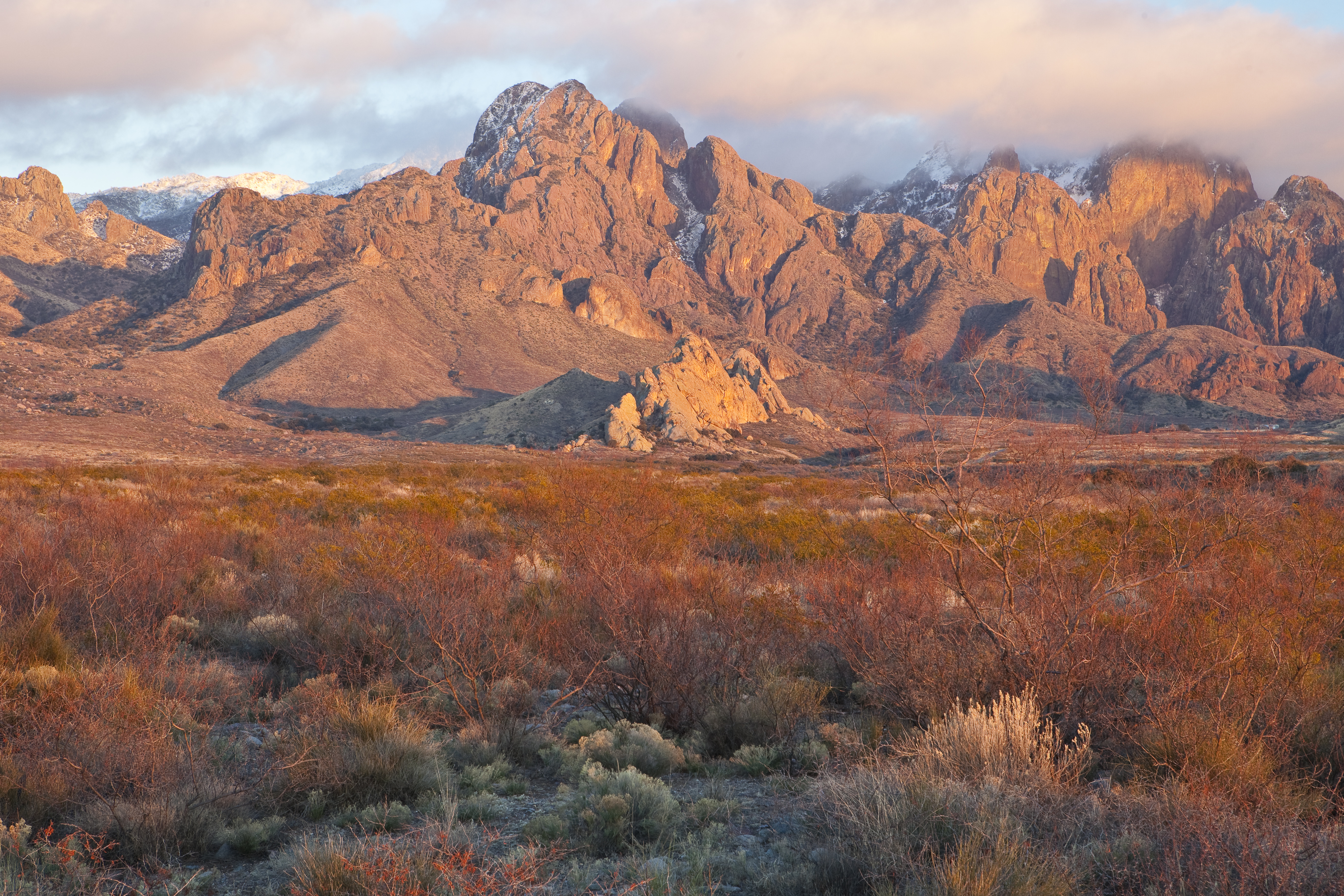 The Organ Mountains WSA is located in south-central New Mexico on the eastern edge of Las Cruces. The Organ Mountains range from 4,600 to just over 9,000 feet, and are so named because of the steep, needle-like spires that resemble the pipes of an organ. Alligator juniper, gray oak, mountain mahogany and sotol are the dominant plant species here, but in the upper elevations stands of ponderosa pine may be found. Seasonal springs and streams occur in canyon bottoms, with a few perennial springs that support riparian habitats. Wildlife includes desert mule deer, mountain lion, a variety of song birds, and a race of the Colorado chipmunk. The WSA includes the Baylor Pass National Recreation Trail. Learn more: Photo: Bob Wick, BLM California